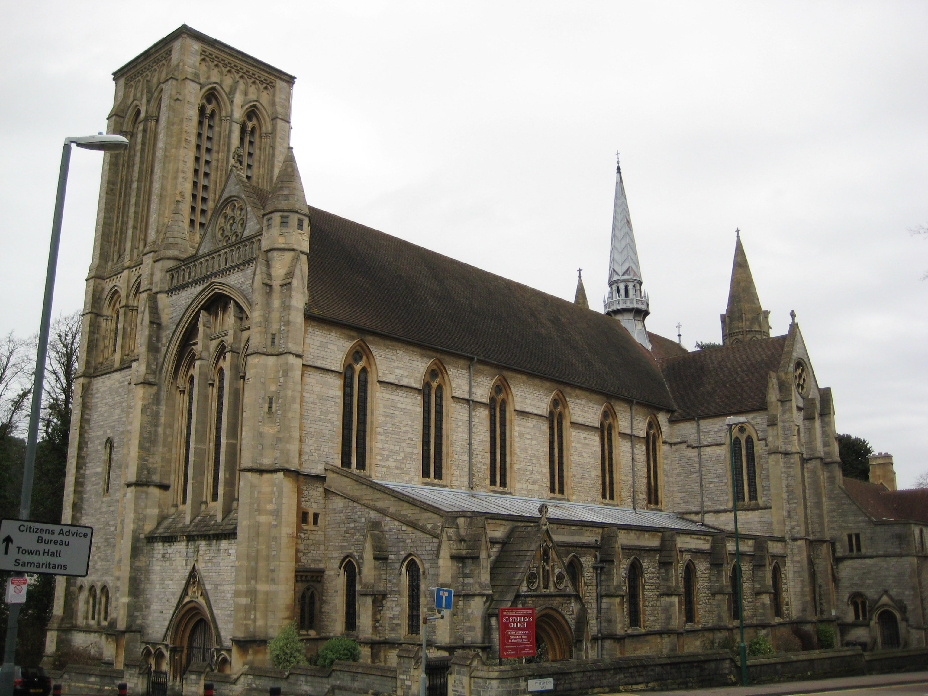 St Stephen's church in Bournemouth, England. Own Work. 2008.